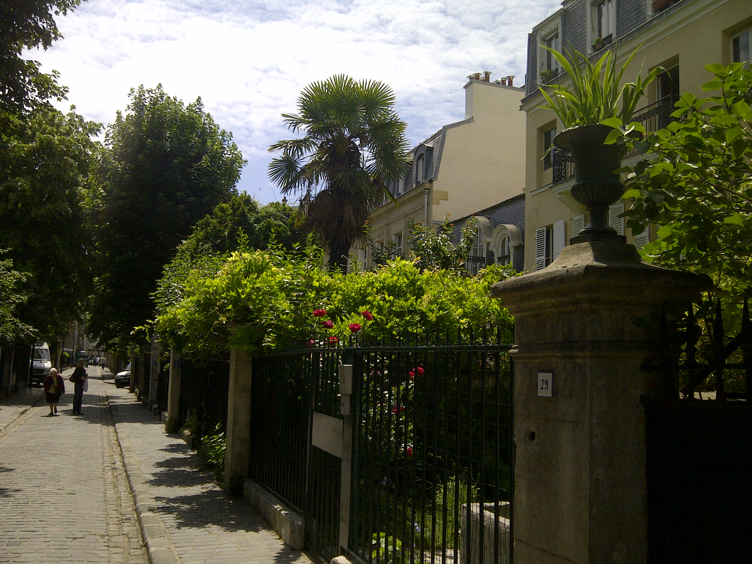 Cité des Fleurs in Paris' 17th district